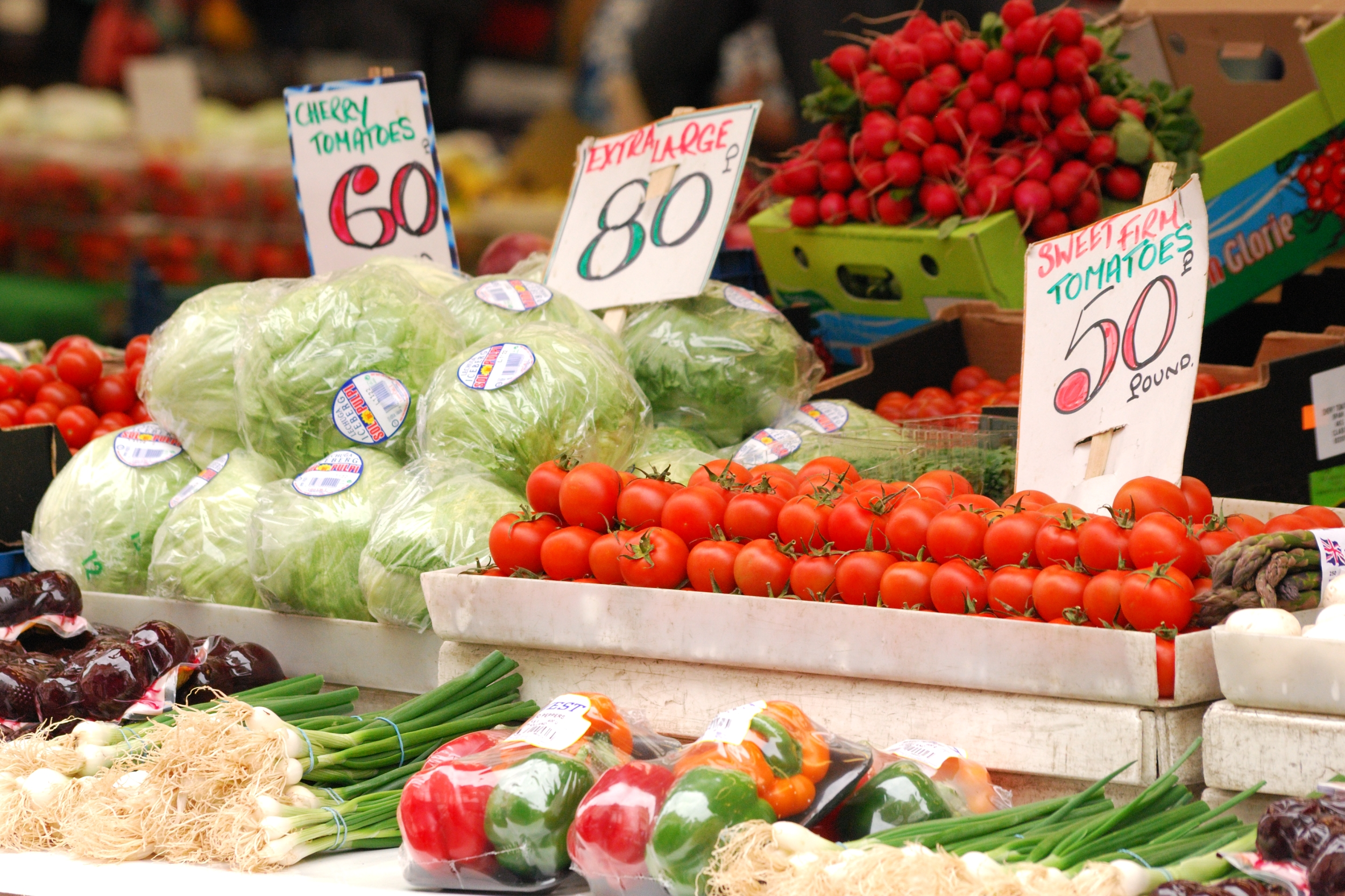 Produce for sale in Leicester Market